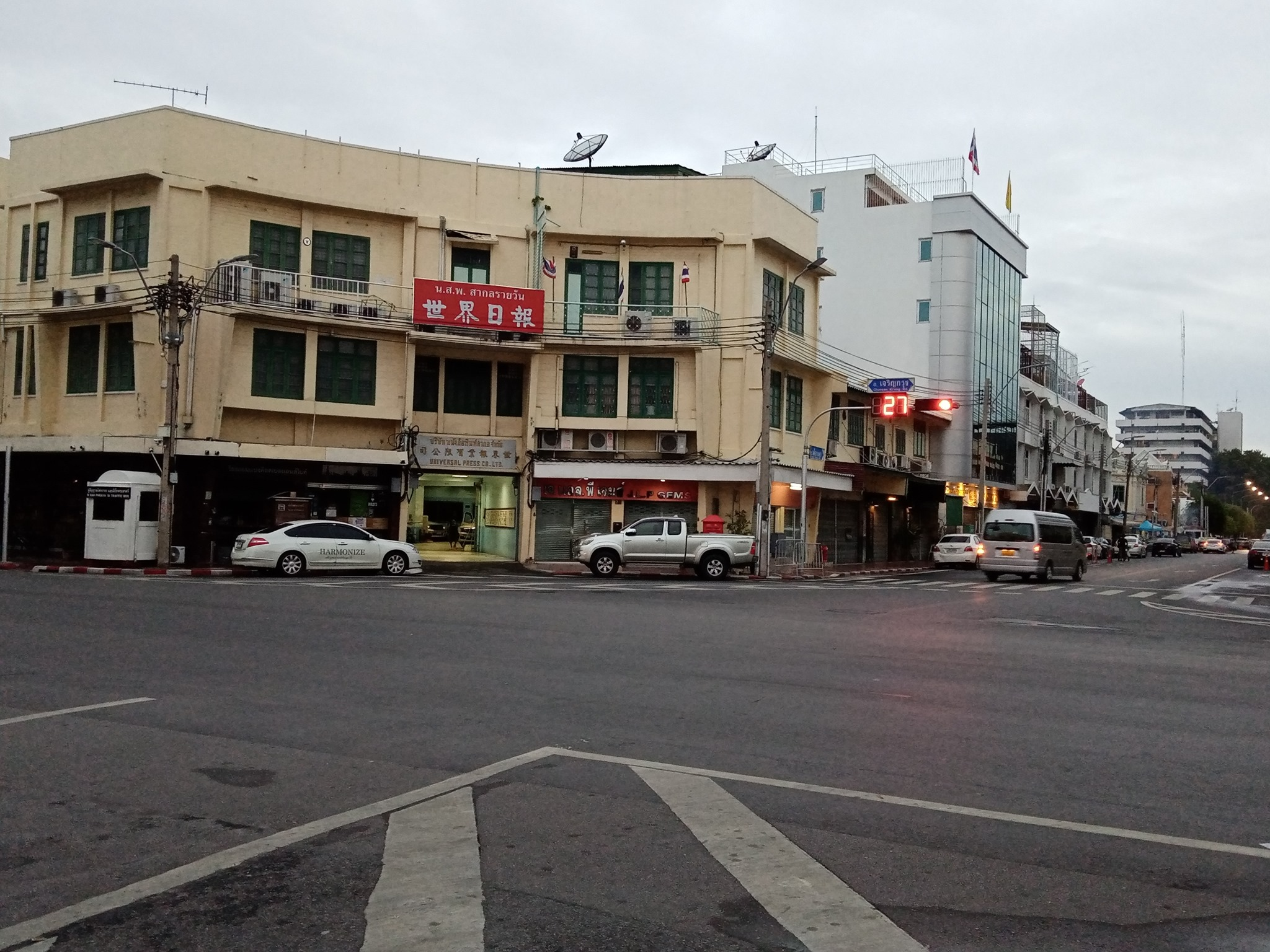 Si Kak Phraya Si Intersection, Wang Burapha Phirom, Phra Nakhon, BKK.